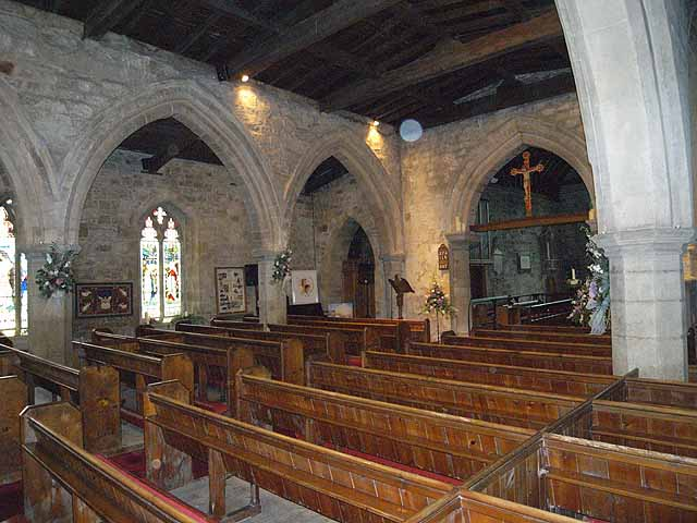 Church of St Michael and All Angels, Felton. Interior of the beautiful old church at Felton, fragments of which date back to the 12th century.